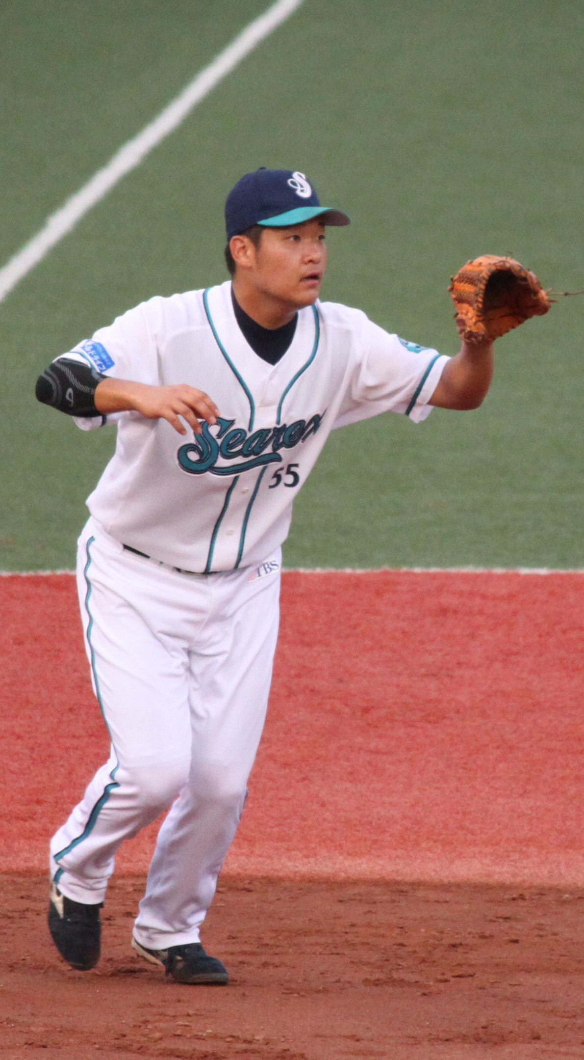 Yoshitomo Tsutsugoh, infielder of the Shonan Searex, at Yokosuka Stadium.